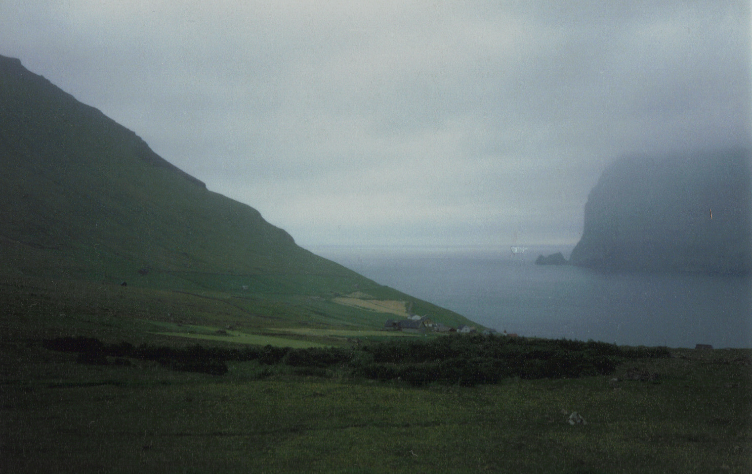 Forest near mikladalur, Kalsoy, Faroese